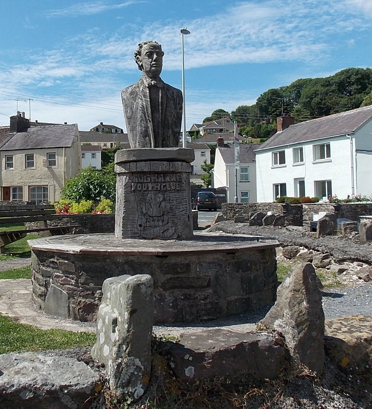 Erected by Laugharne Youth Club in 2006